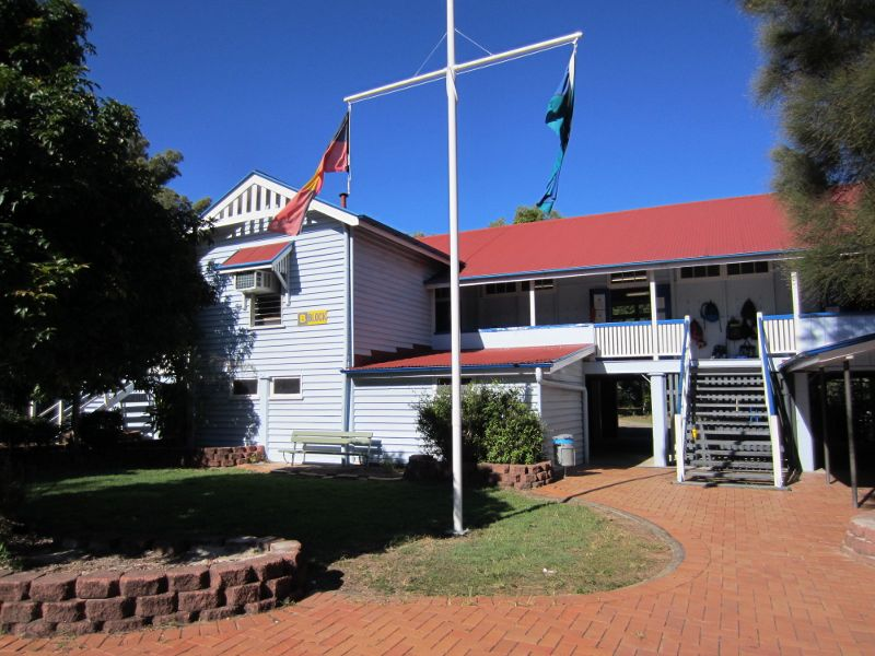 Sectional School Building (Block B) with projecting teachers room; north elevation, view from parade ground, from northwest (EHP, 2 June 2015)